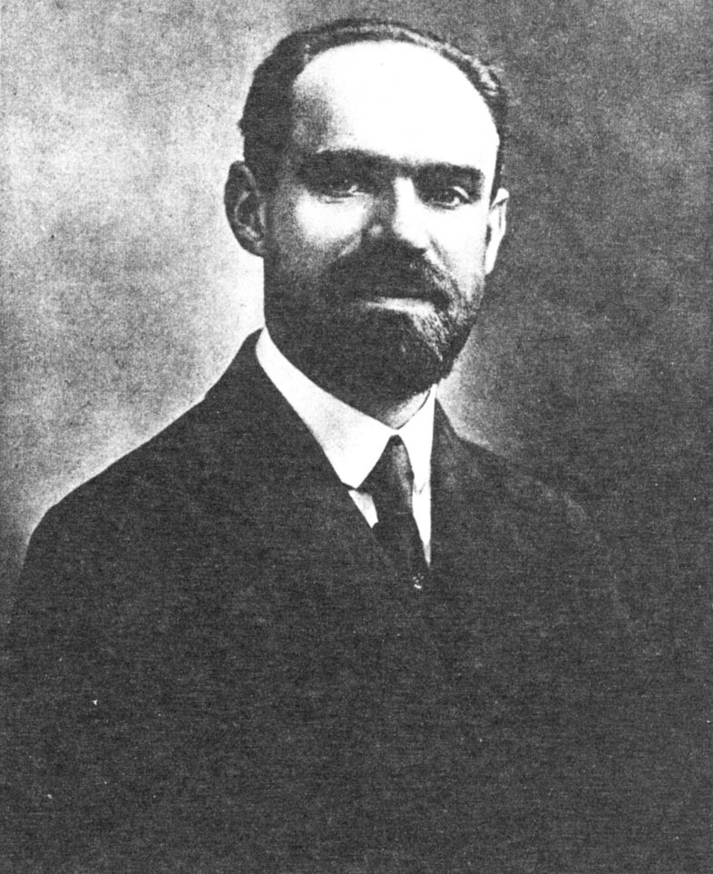 Ernestas Galvanauskas, engineer, diplomat of Lithuania, Prime Minister of Lithuania